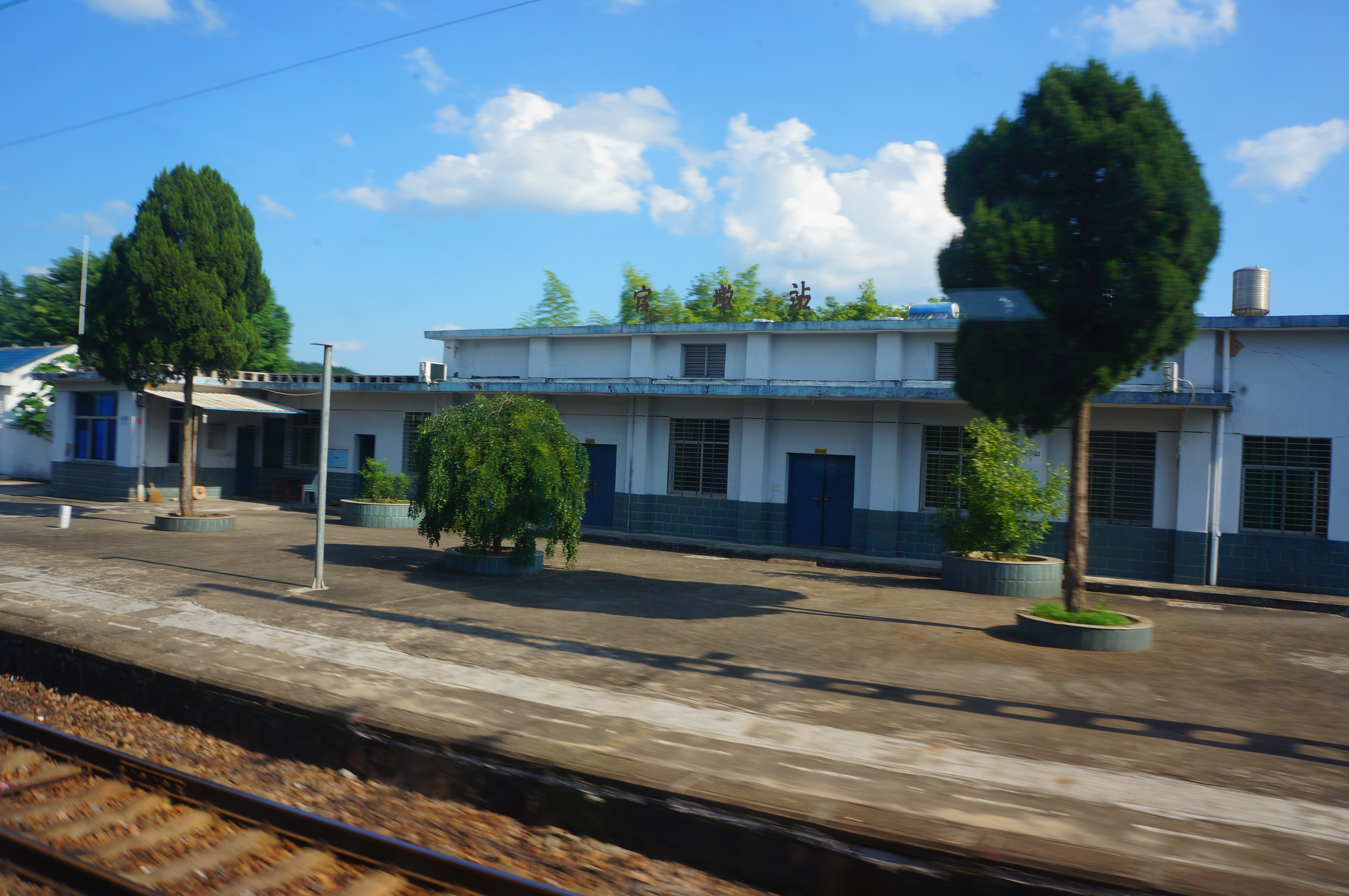 201806 Station Building of Guandun Station